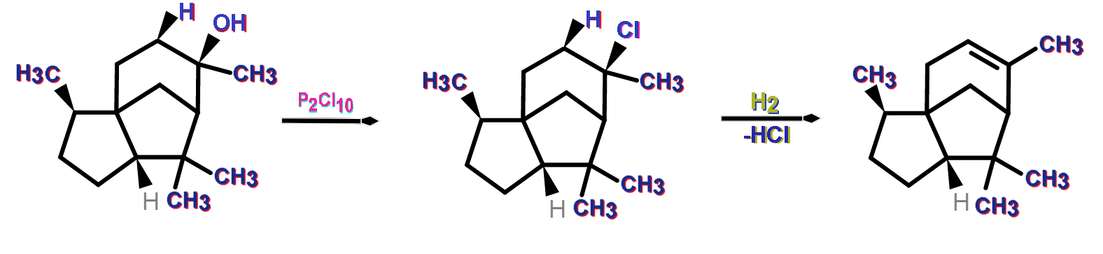 Cedrene pathway from cedrol